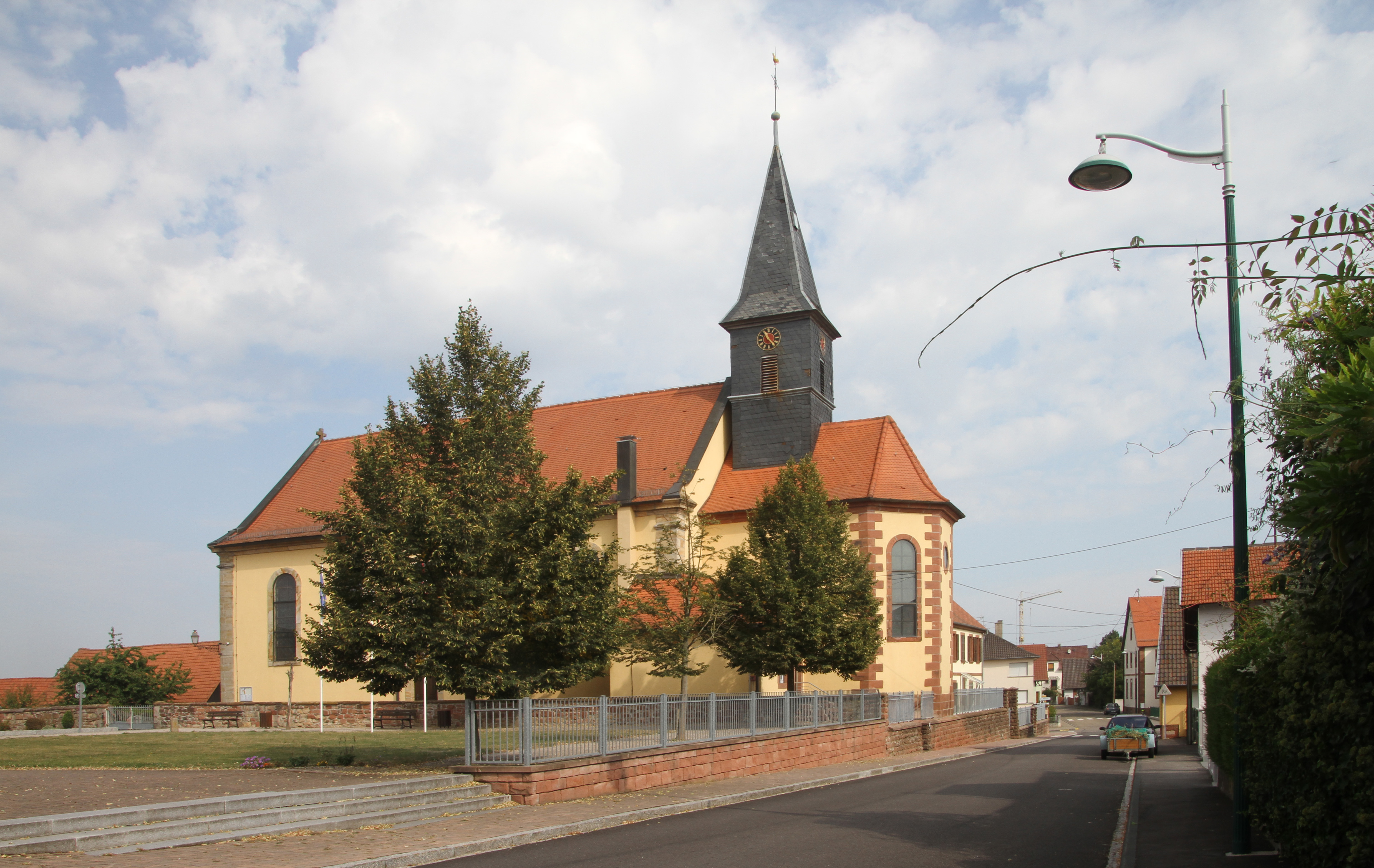 Church of Saint Sixtus in Oberlauterbach.